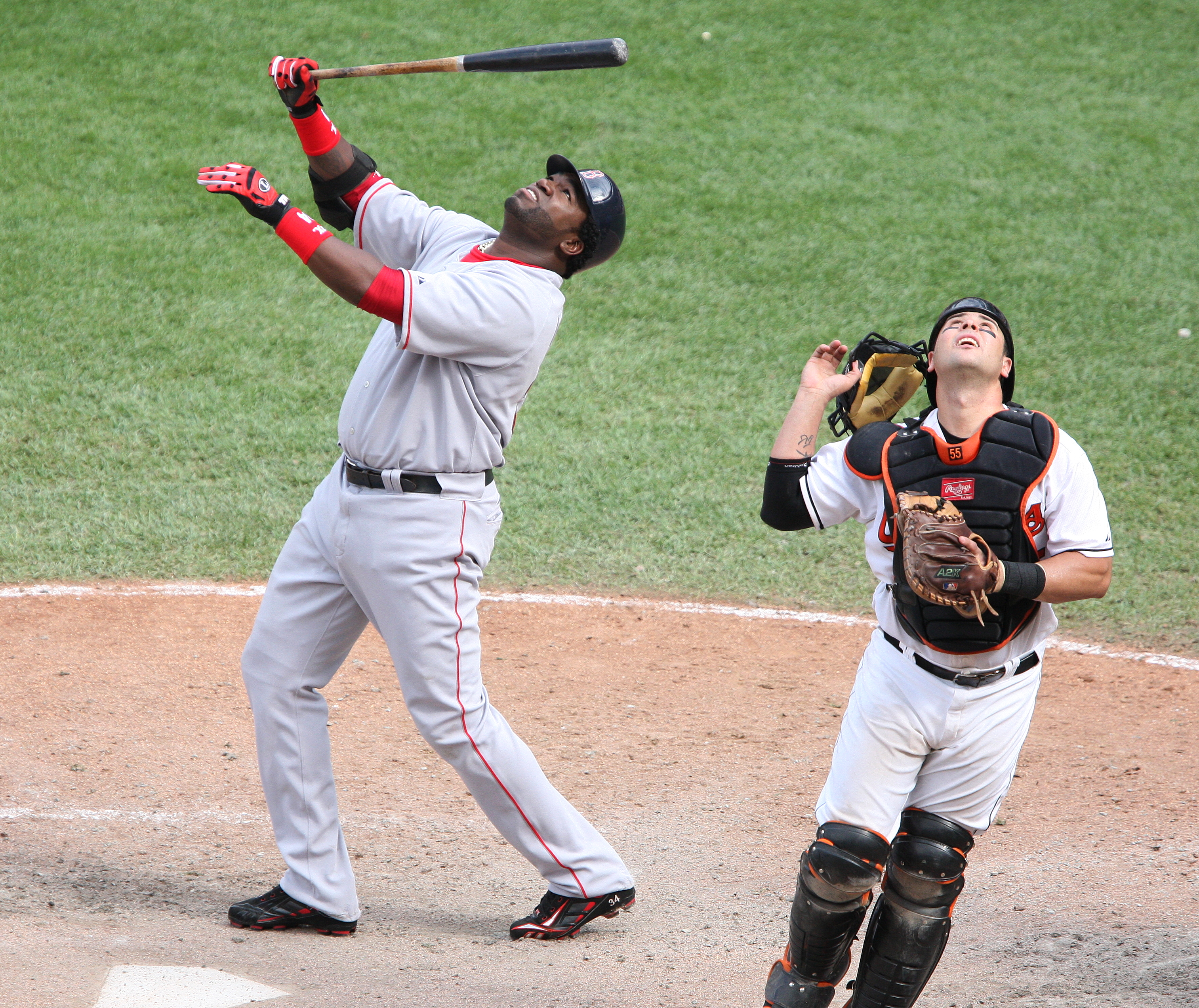 David Ortiz batting a foul ball.